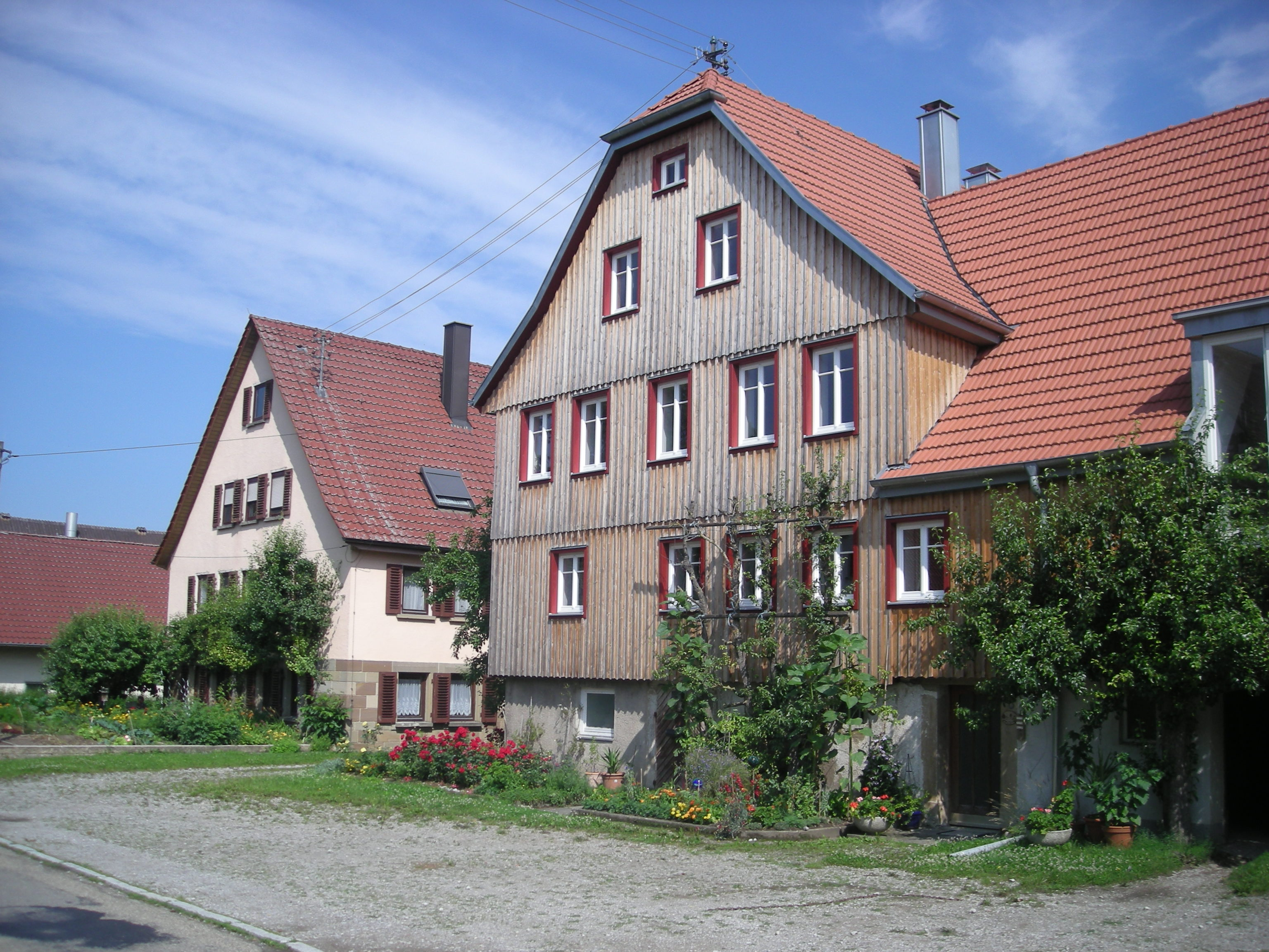 A street scene in Gaugshausen, Baden-Württemberg (Germany).